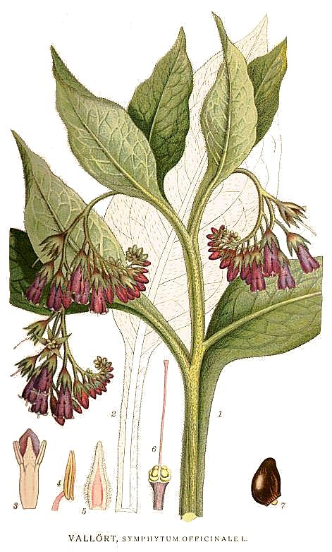 Original Description Vallört, Symphytum officinale L.